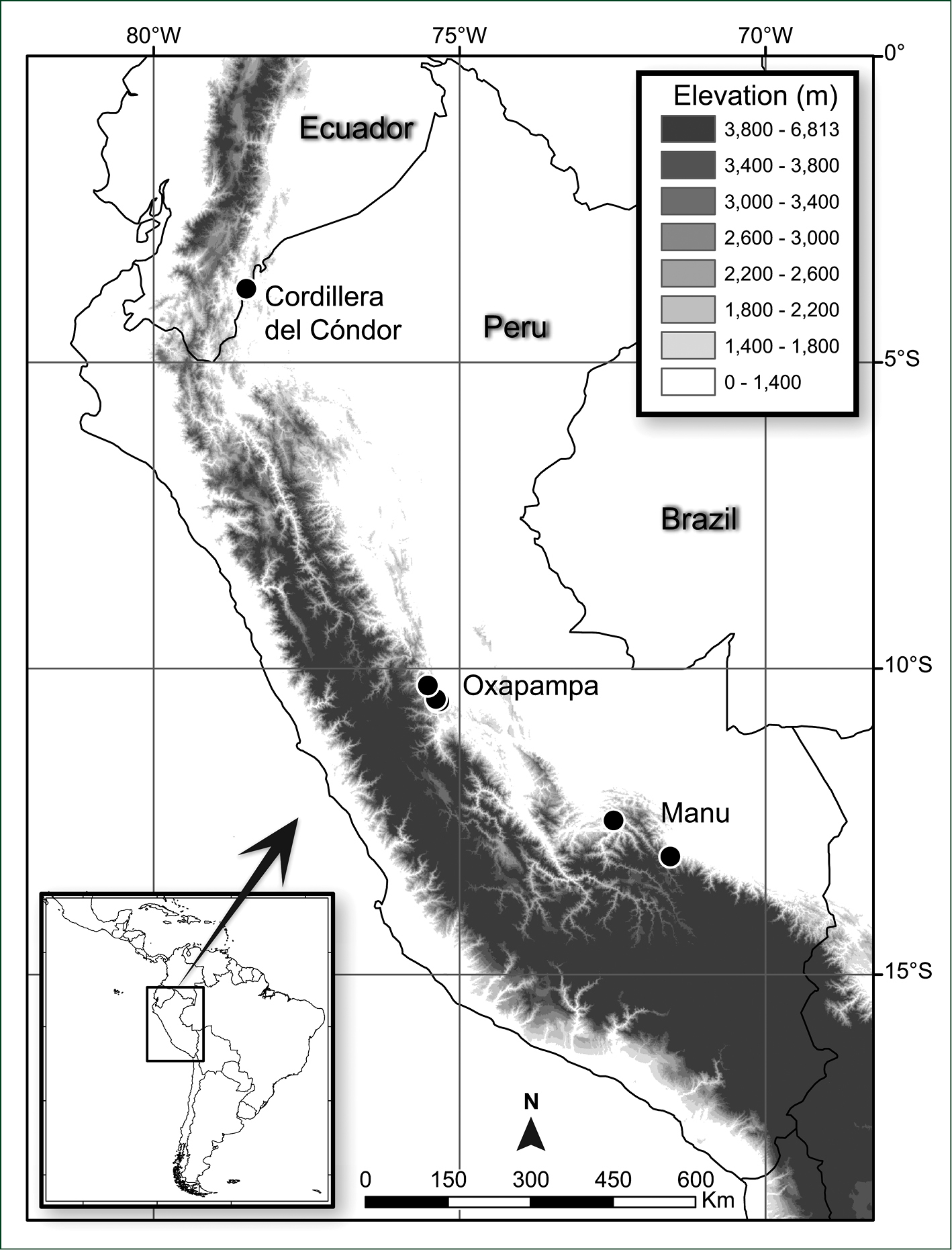 Incadendron esseri distribution. It has been found at the locations of the small black circles.